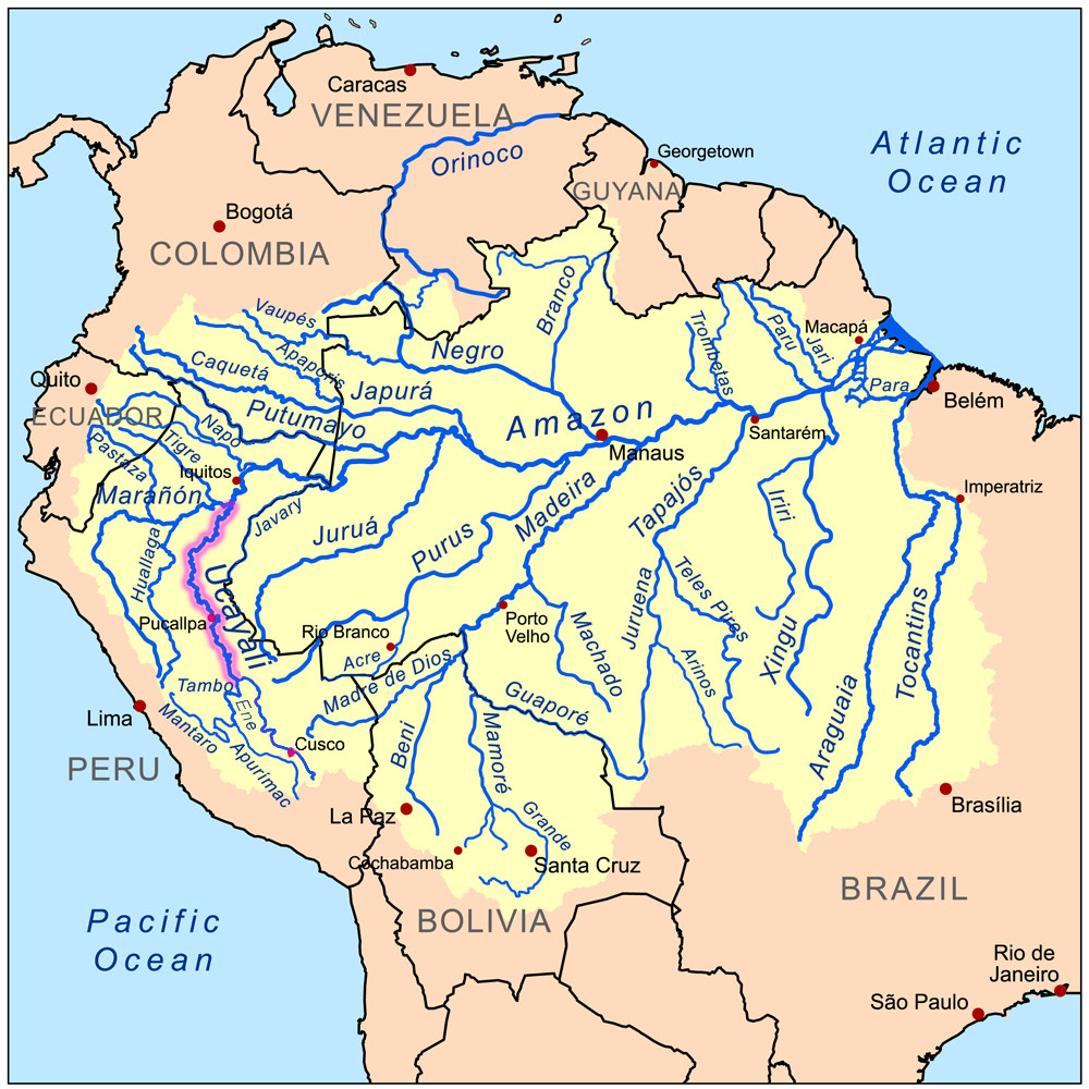 This is a map of the Amazon River drainage basin with the Ucayali River highlighted.